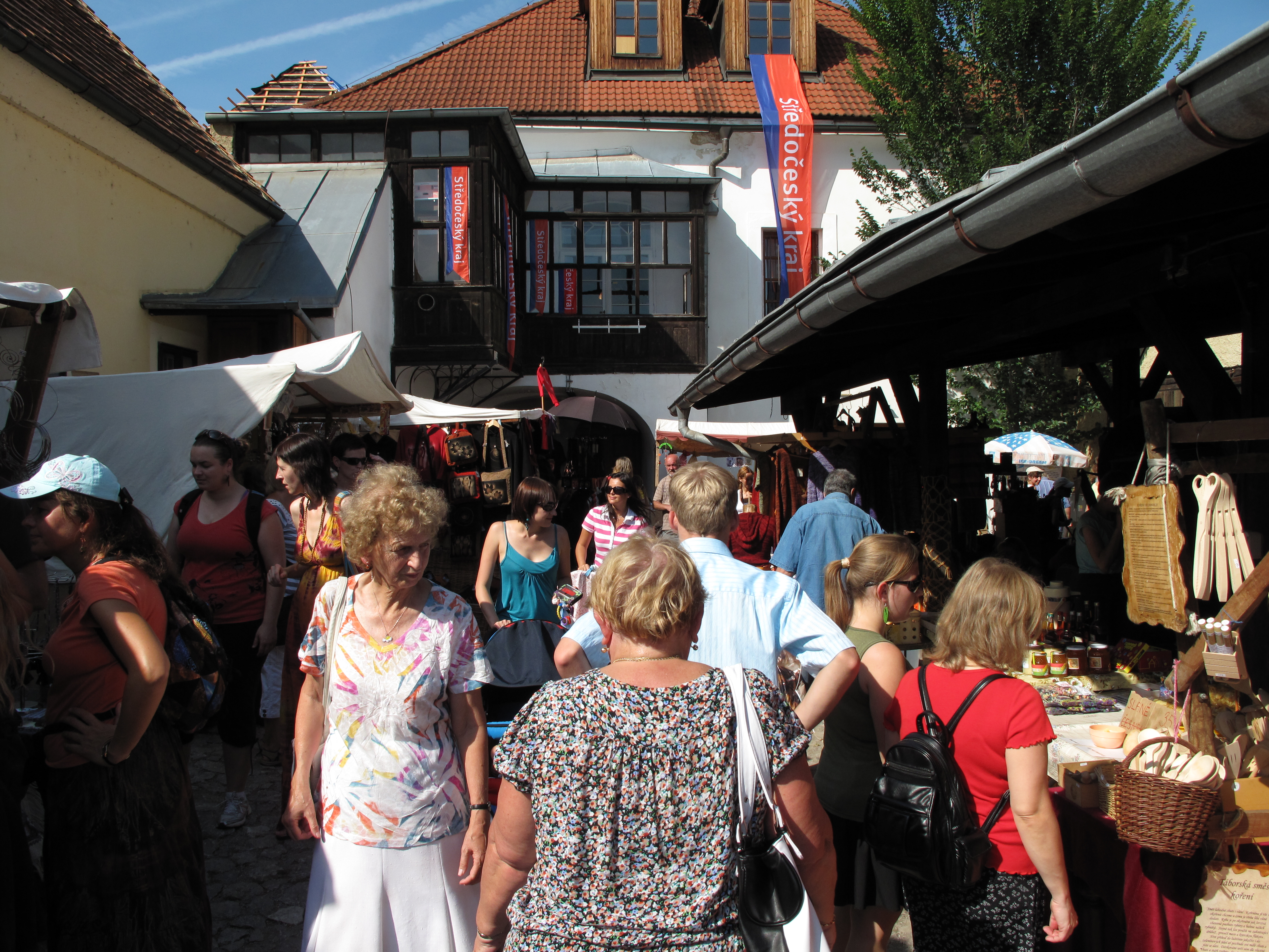 Pottery fair in Beroun in 2011, Czech Republic.